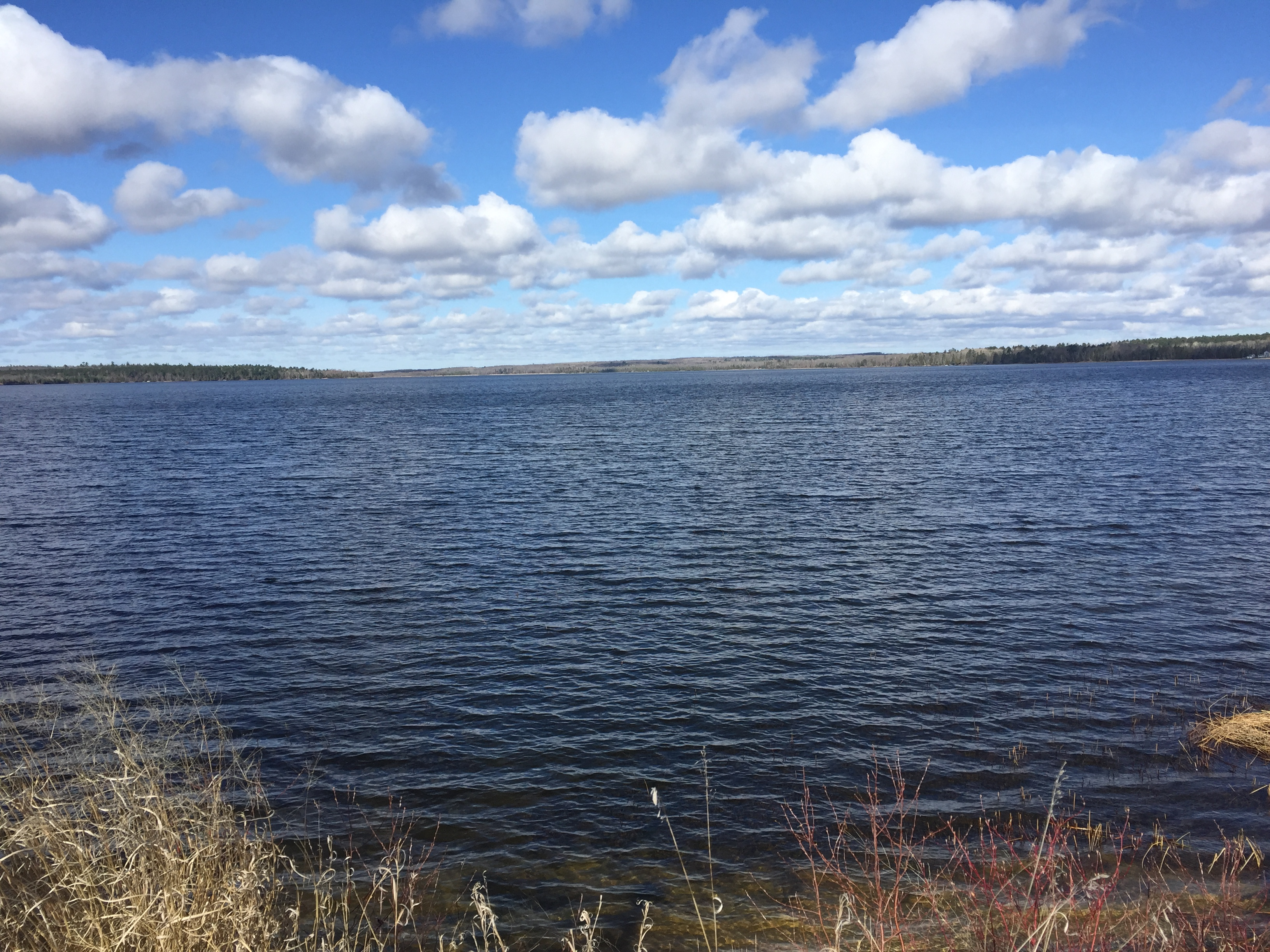 Lake Michigan photo by Daniel Devault